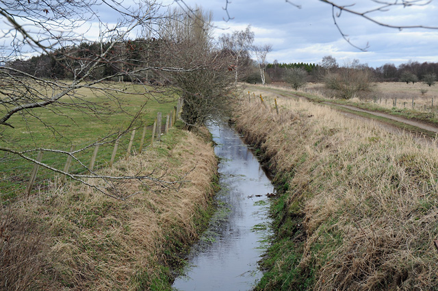 Pow Water